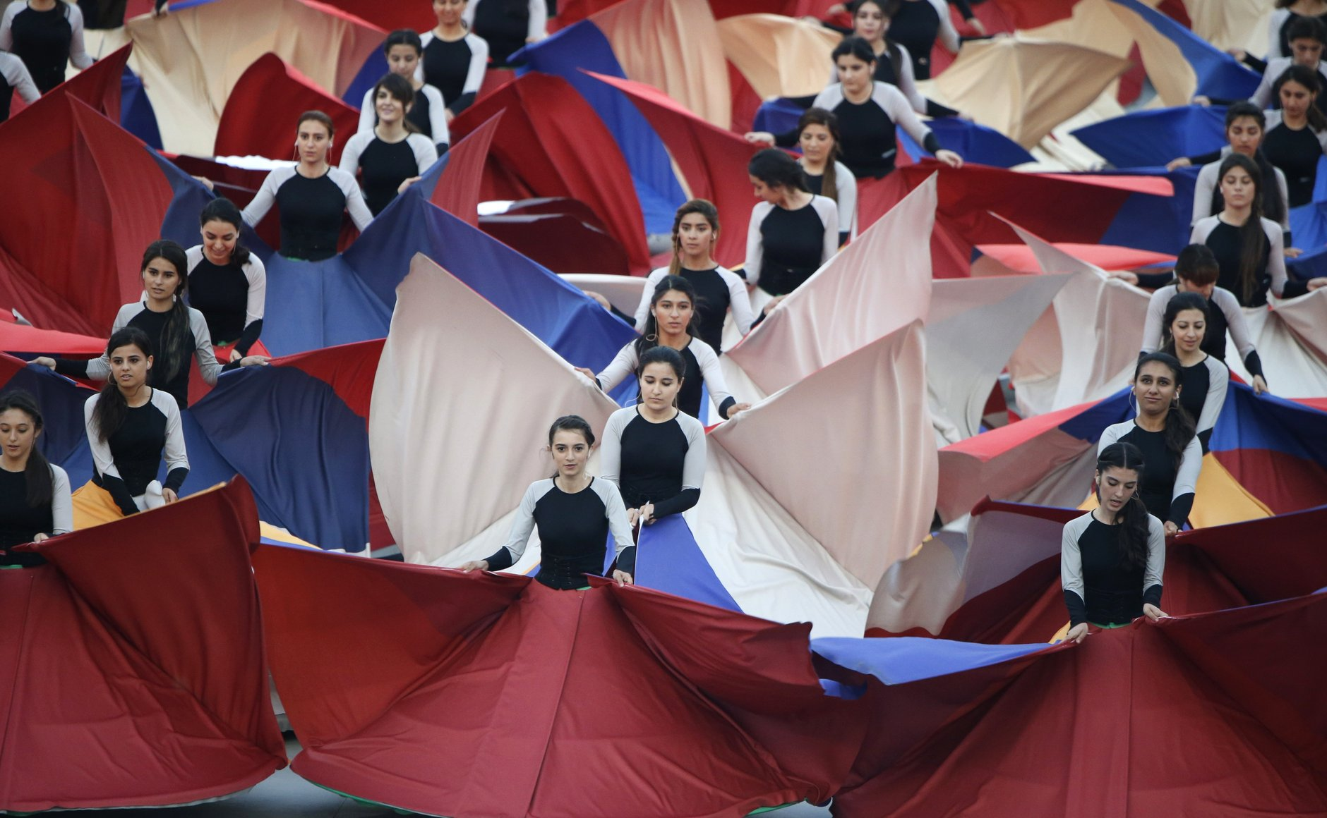 The opening ceremony of the first European games